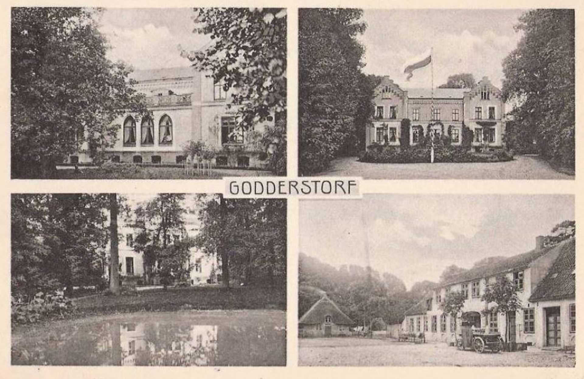 Gut Godderstorf - see the "Herrenhaus" on the first three small pictures, the "Torhaus" is at the button on the right side. It was taken at 1907.